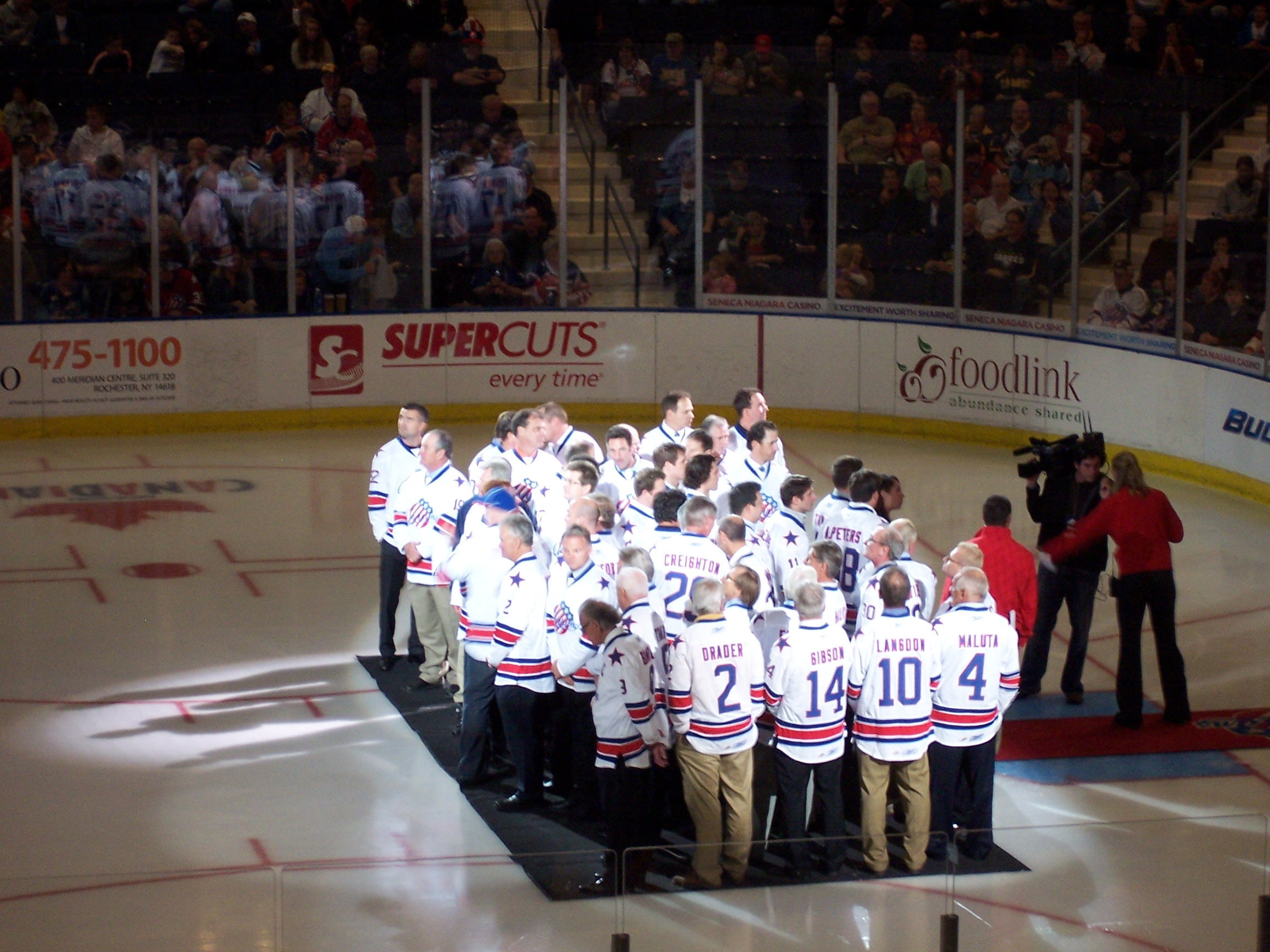 Over 40 former Rochester Americans ice hockey players took advantage of new owner Terry Pegula's offer to fly them in for the 2011 home opener on October 13. An on-ice ceremony at the Blue Cross Arena preceded the game versus the Scranton/Wilkes-Barre Penguins. Here, the Amerks alumni wait for the entrance of the legendary Joe Crozier, whose induction into the American Hockey League Hall of Fame was announced that evening.